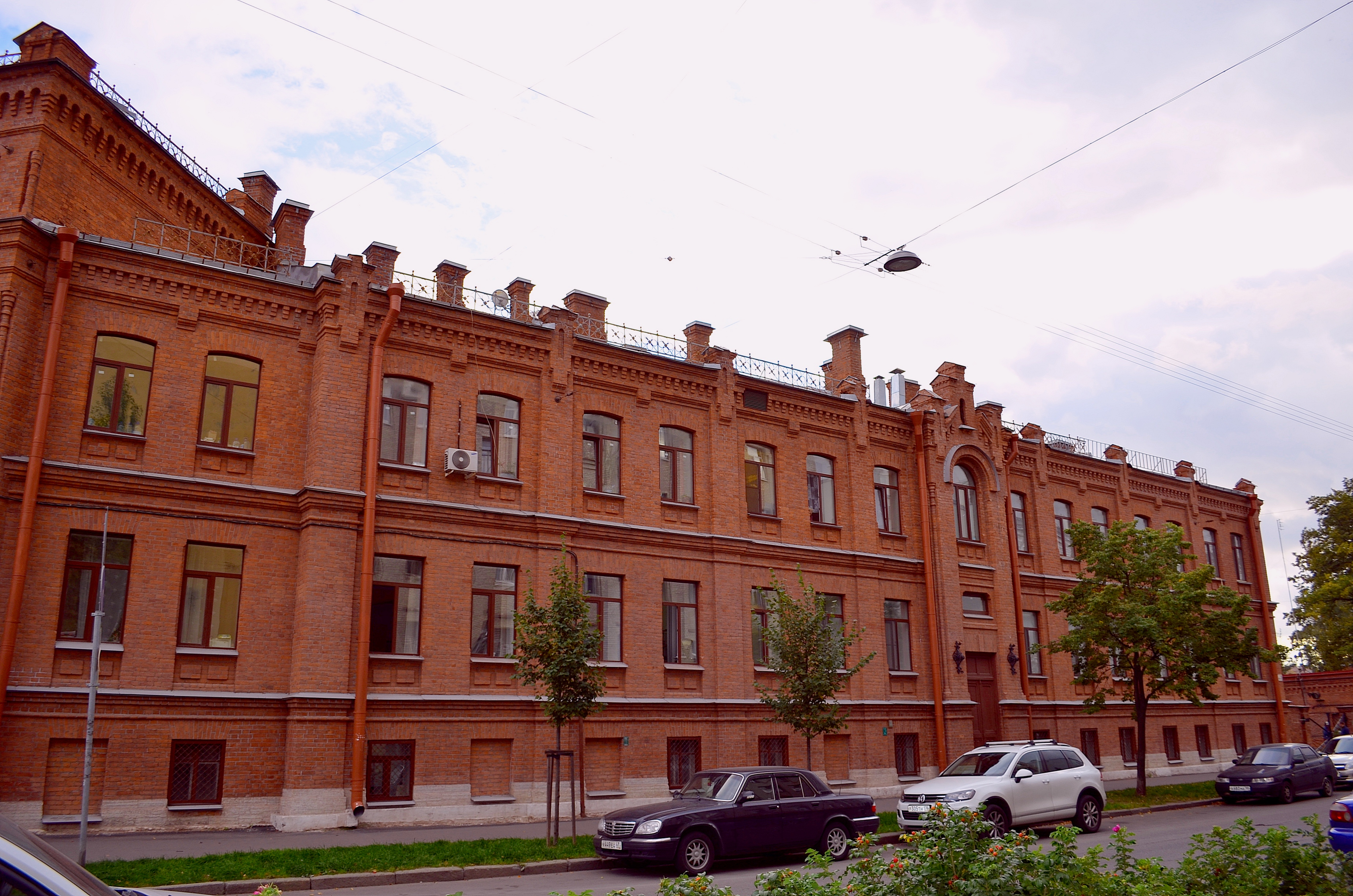 Main building (engineer D.K. Prussak), 1896-1899: Starorusskaya street, 3 / Novgorodskaya street, 2. Central district, St. Petersburg, Tsentralny district, St. Petersburg